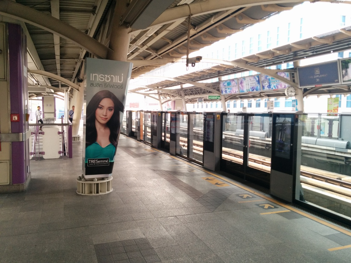 View of Bts bangkok station